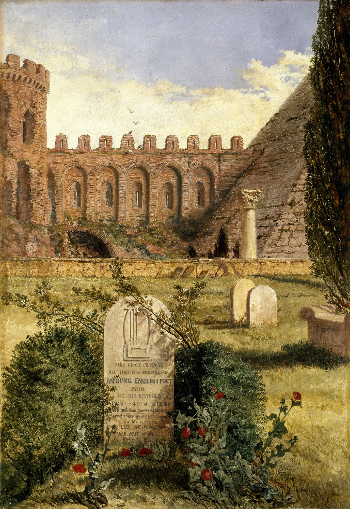 Scott, William Bell; Keats's Grave; The Ashmolean Museum of Art and Archaeology